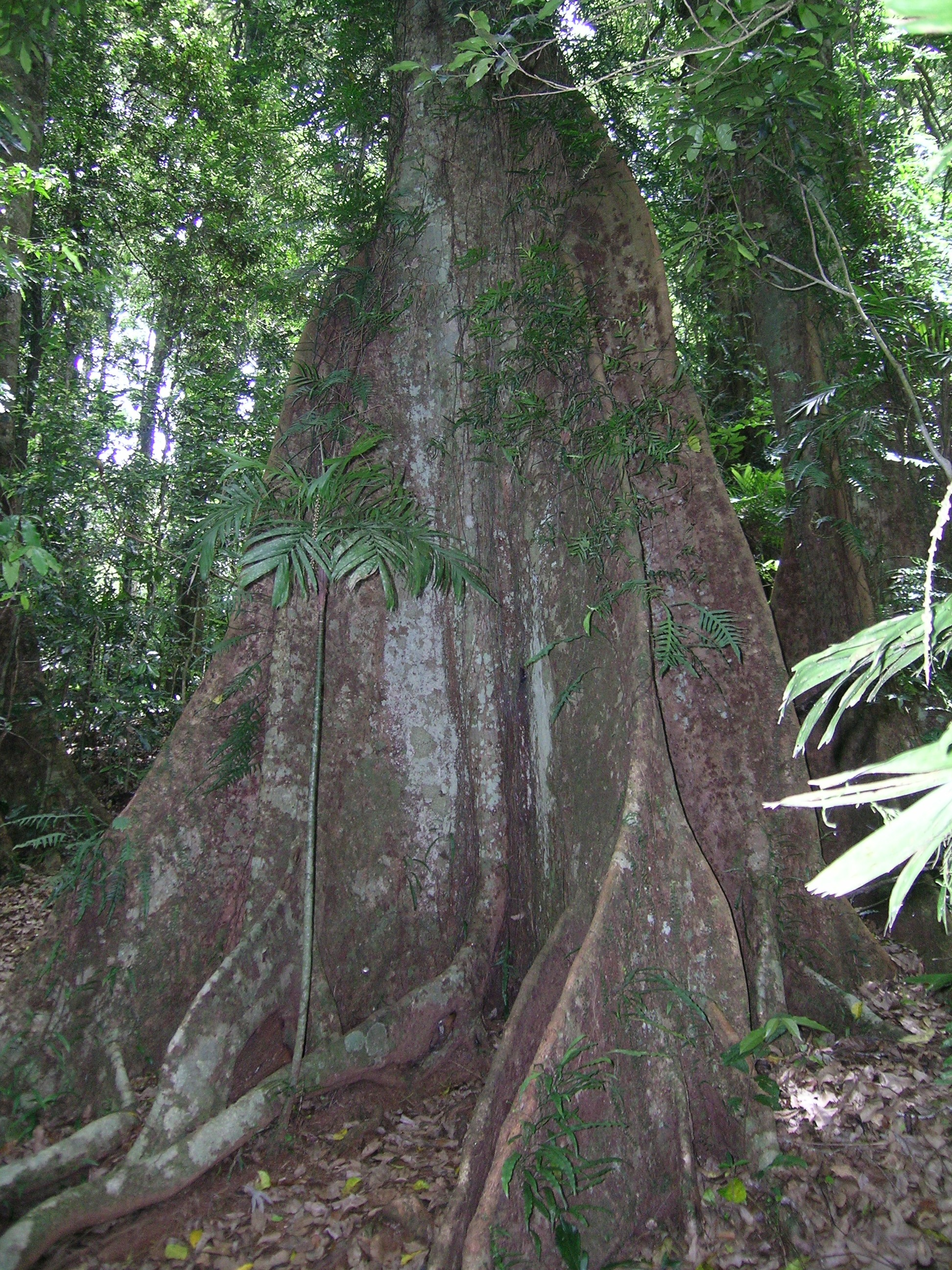 Sloanea woollsii (Yellow Carabeen) and Linospadix monostachya (Walking Stick Palm) in Dorrigo National Park, NSW